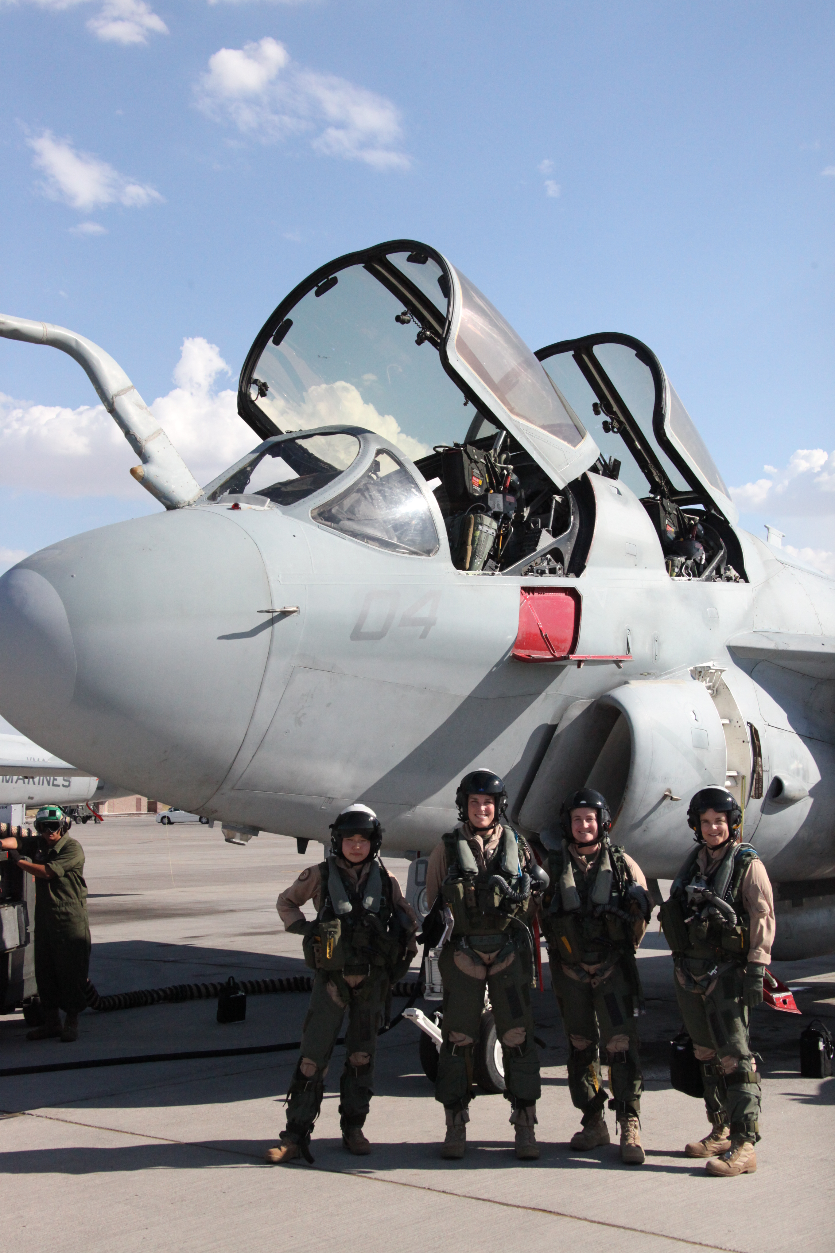 Female Marines of Marine Tactical Electronic Warfare Squadron 3 prepare to embark on the first known all female EA-6B Prowler flight. (Left to Right) Capt. Aleah A. Larson, an electronic countermeasures officer with VMAQ-3, Capt. Jill L. Stephenson, pilot with VMAQ-3, Maj. Melissa P. Kelley, an ECMO with VMAQ-3, Capt. Tracey N. Smith, an ECMO with VMAQ-1.